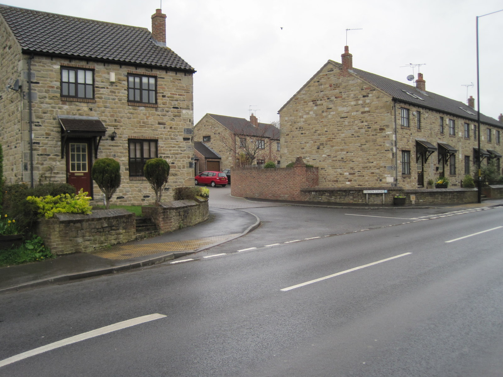 Spofforth railway station (site), YorkshireOpened in 1847 by the York & North Midland Railway on the line from Church Fenton to Harrogate (Brunswick), this station closed in 1964. View north west from the former level crossing towards Harrogate. All trace has been swept away and Station Court now occupies the site.